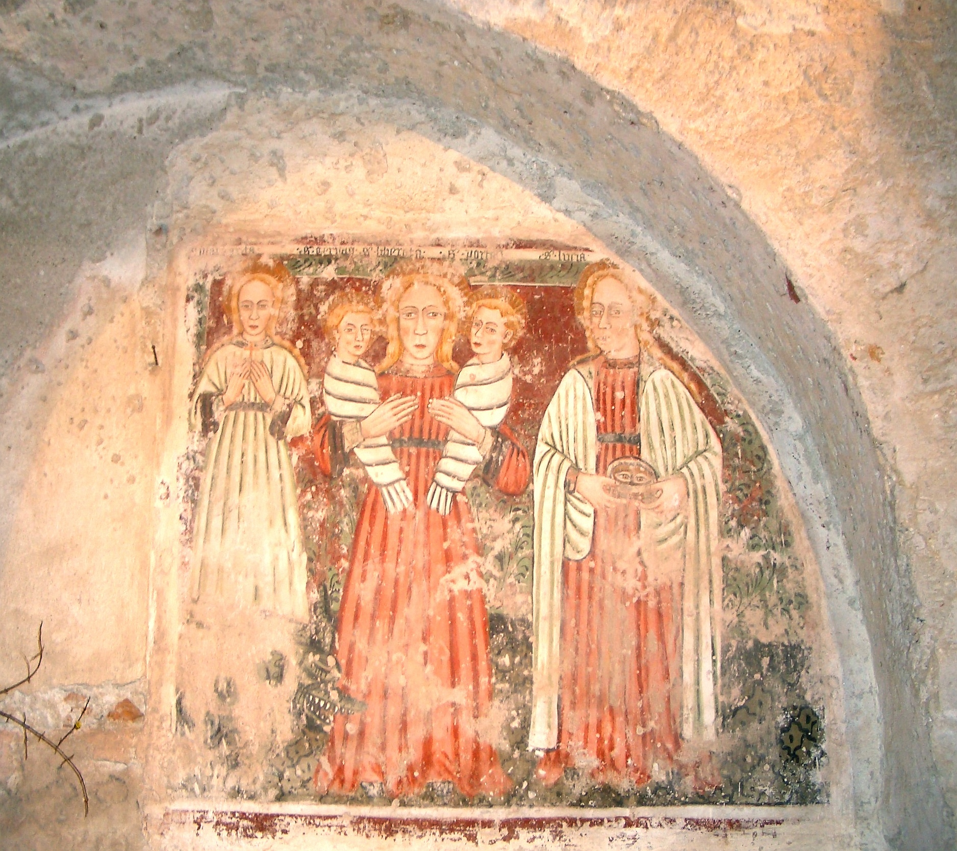 Unknown painter, “St. Margaret, St. Liberata, Saint Lucy”, fresco, XV century, Montalto Dora (Turin, Italy), Exterior of the Castle chapel.